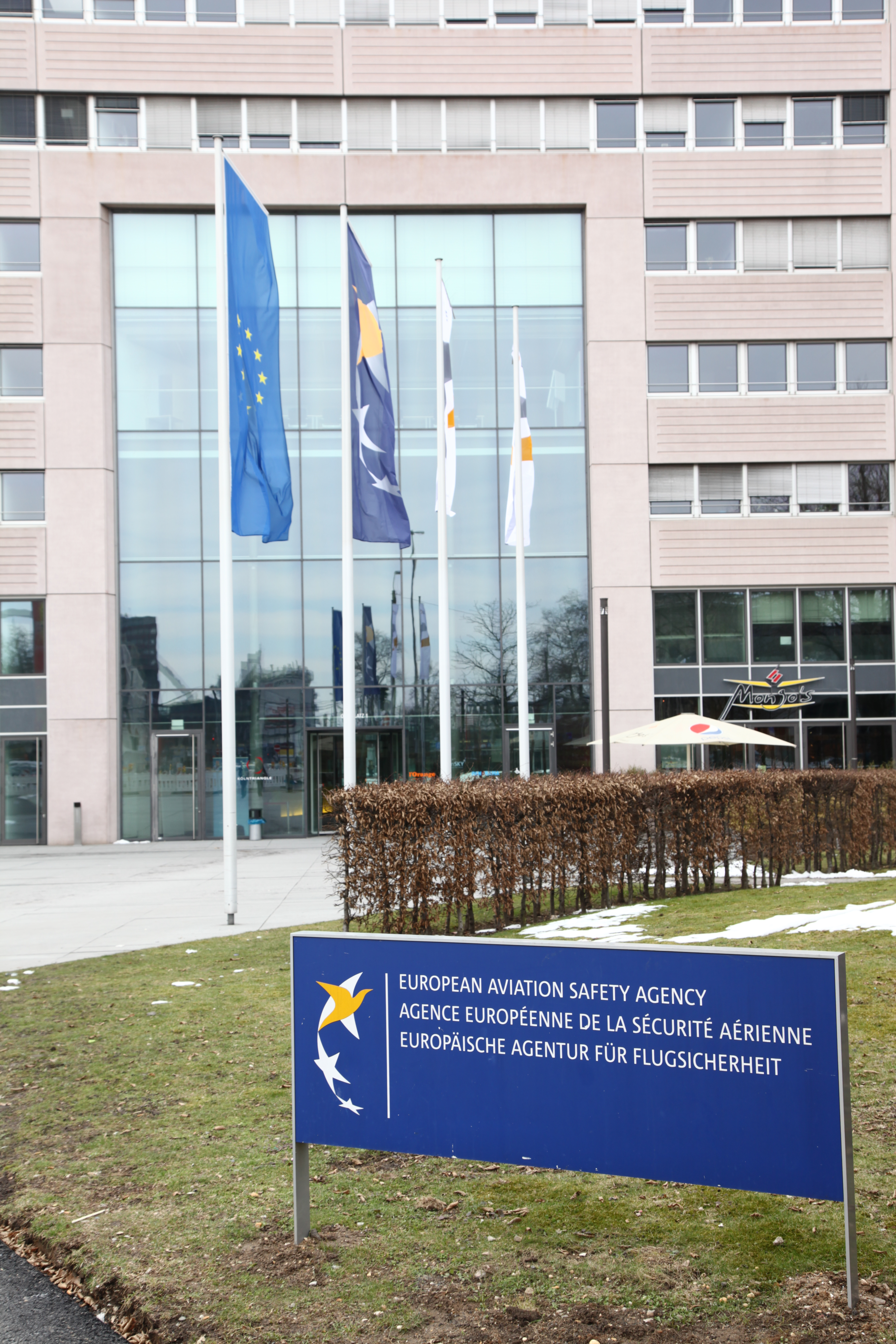 Building of the European Aviation Safety Agency in Cologne